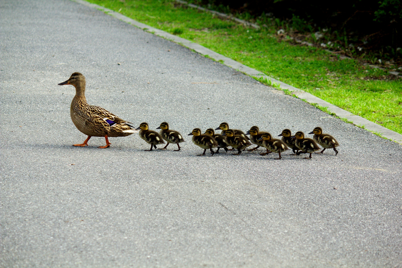 Ducks army marching